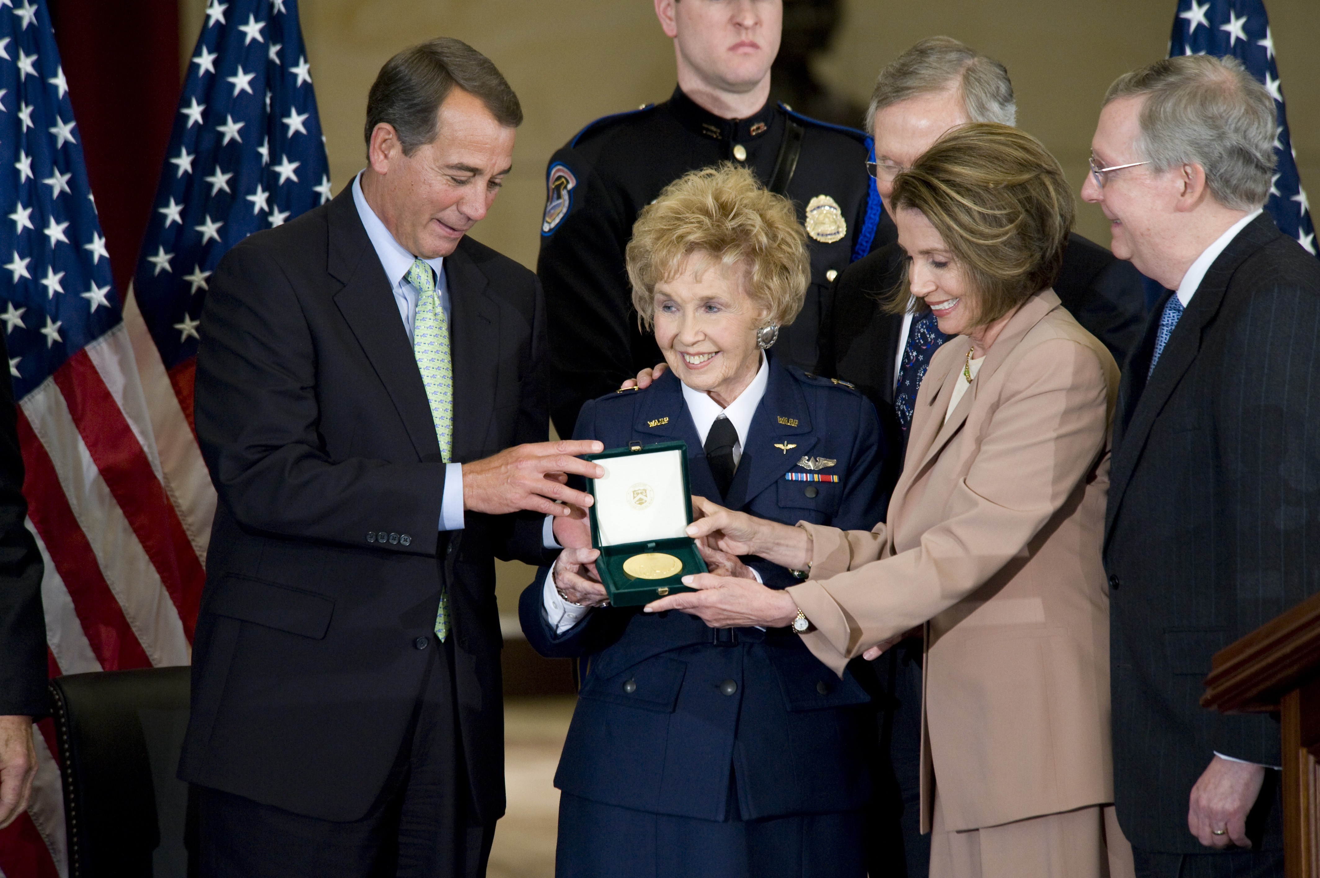 Speaker Pelosi, Leader Reid, Leader Boehner, Leader McConnell, and other Members of Congress hosted a Congressional Gold Medal ceremony on March 10th in the Capitol in honor of the Women Airforce Service Pilots (WASP) of World War II. The Women Airforce Service Pilots were the first women in history to fly American military aircraft–flying 60,000,000 miles of operation flights on every plane the Army Air Corps flew, including the B-29, from 1942-1944.